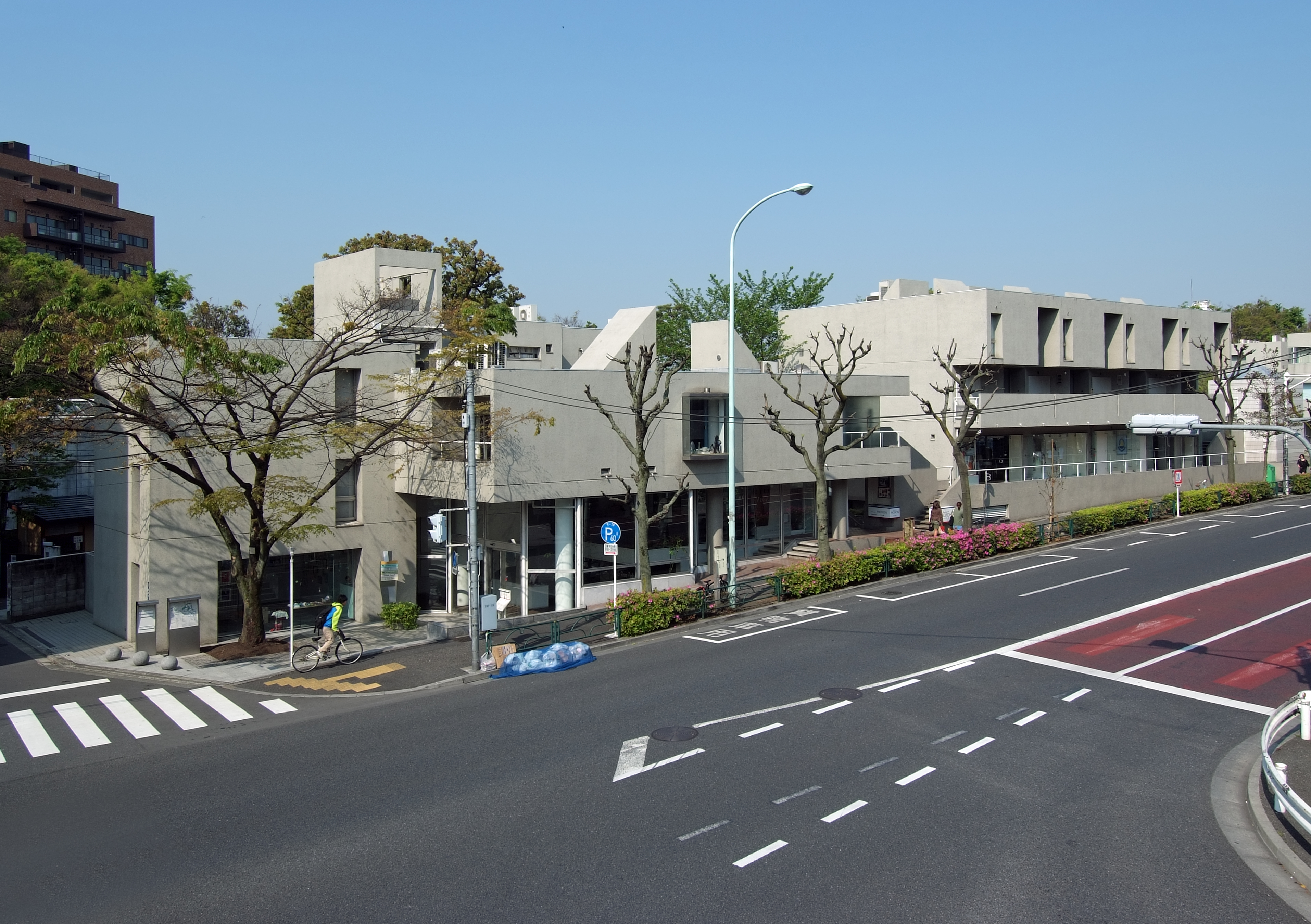 Hillside Terrace A B in Shibuya-ku Tokyo Japan, designed by Fumihiko Maki in 1969.